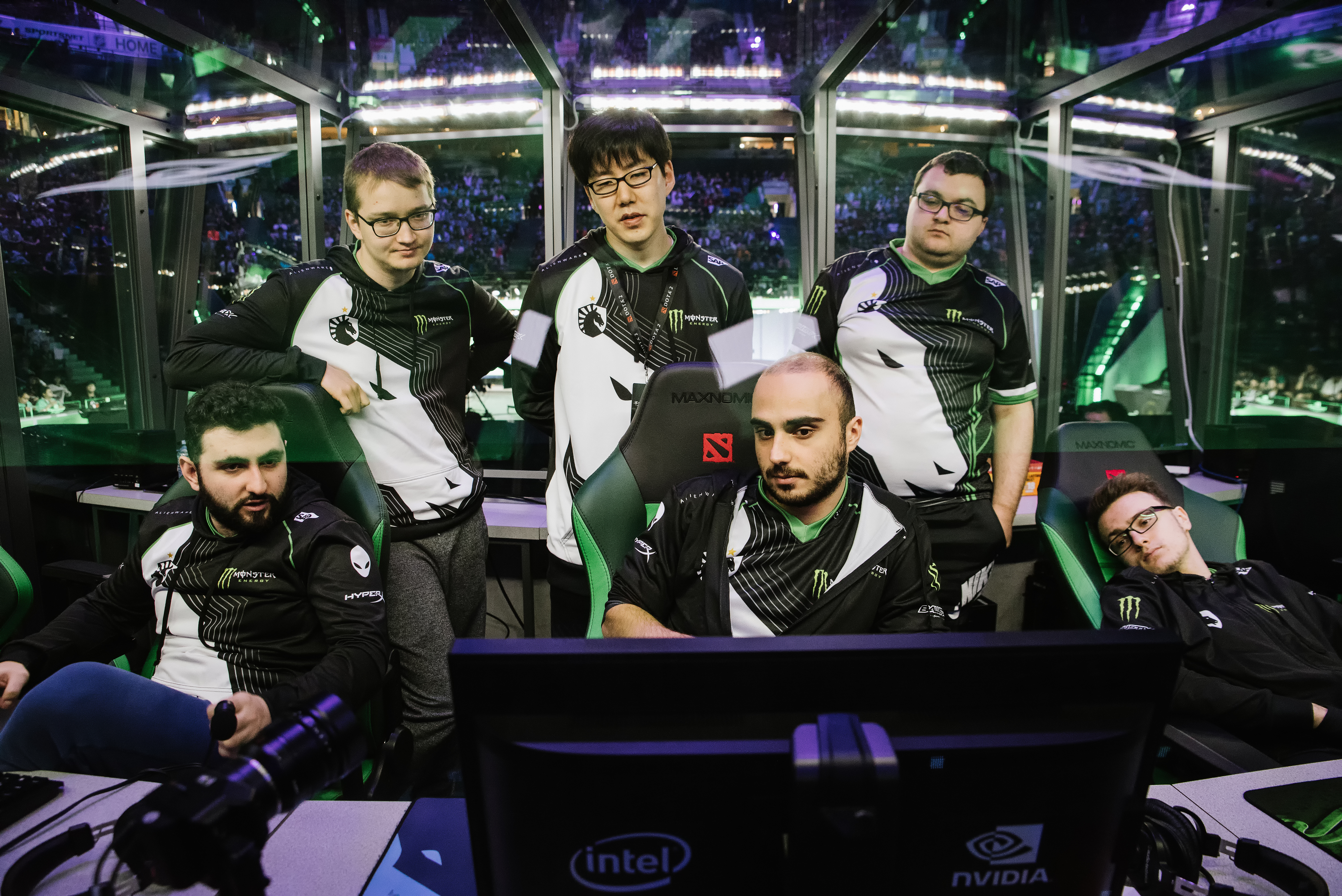 The International 2018